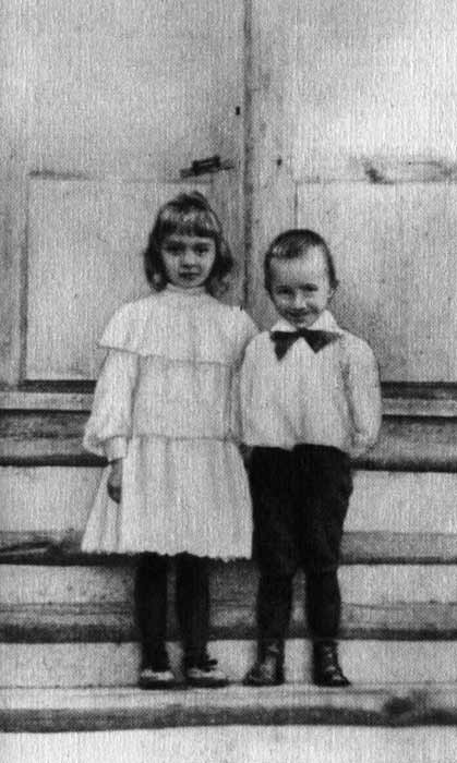 Daniil Andreev as a child - year 1914